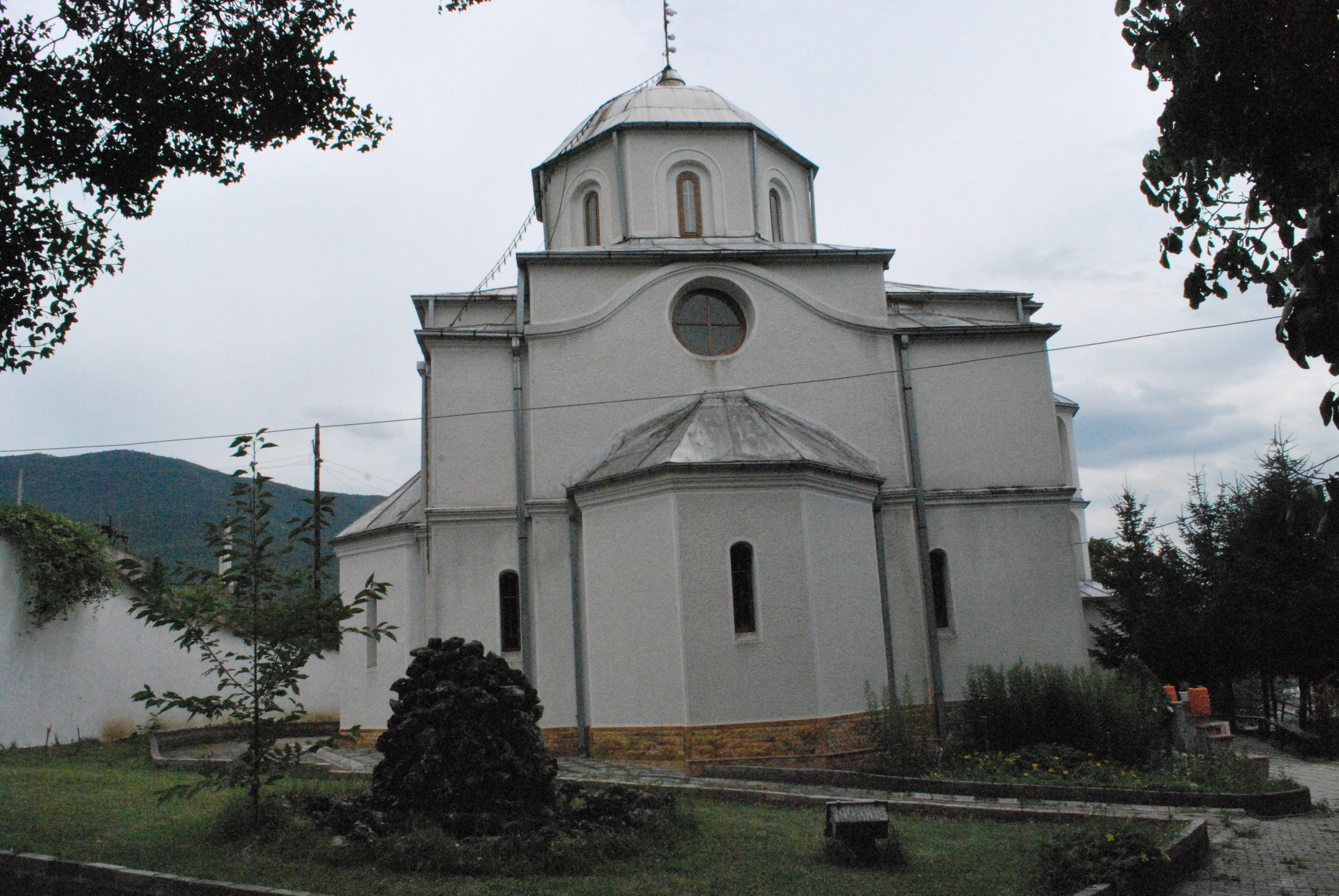 Holy Mother of God Church in Čelopek near Tetovo, Macedonia